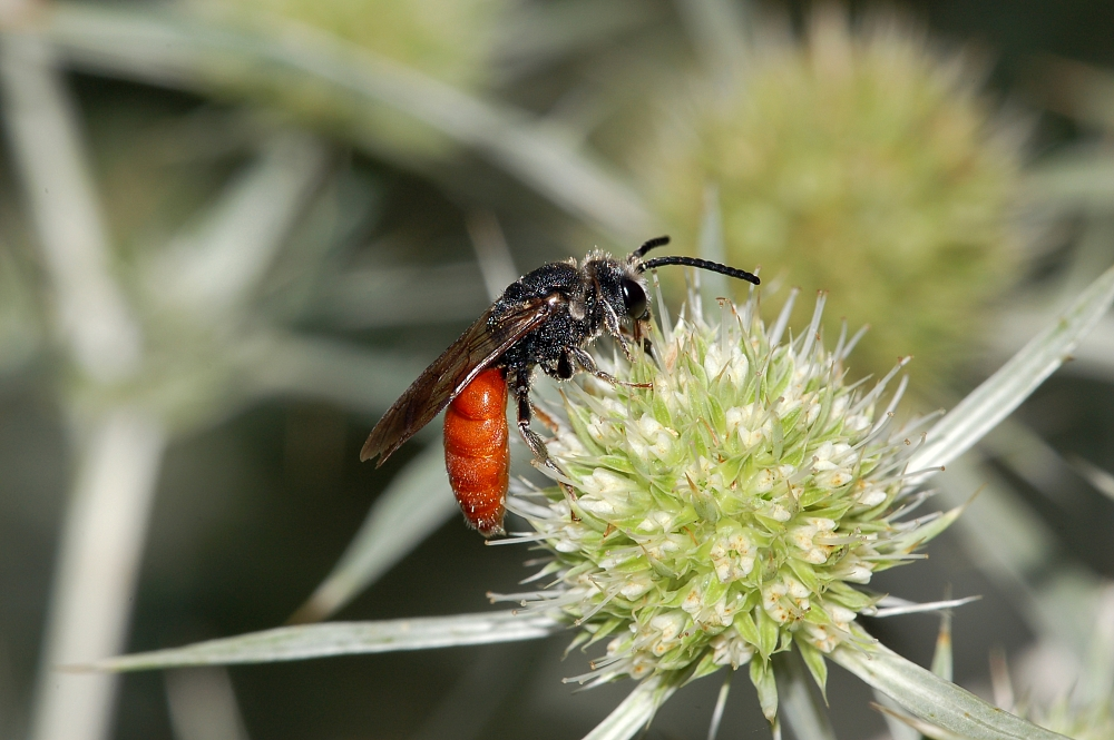 Sphecodes albilabris, Schwanheim Dune, Frankfurt/Main, Germany